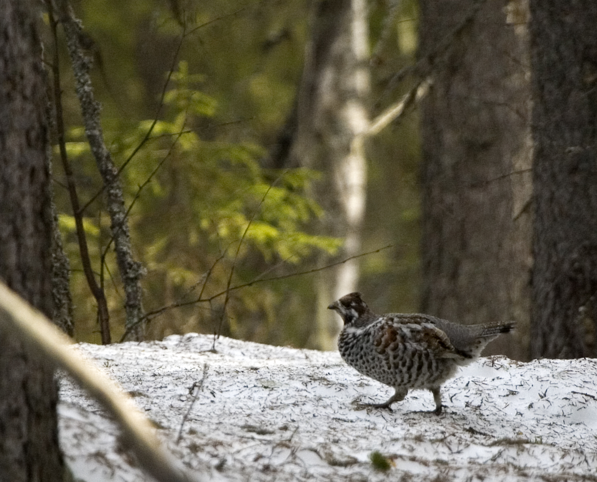 Hazel Grouse (Tetrastes bonasia).